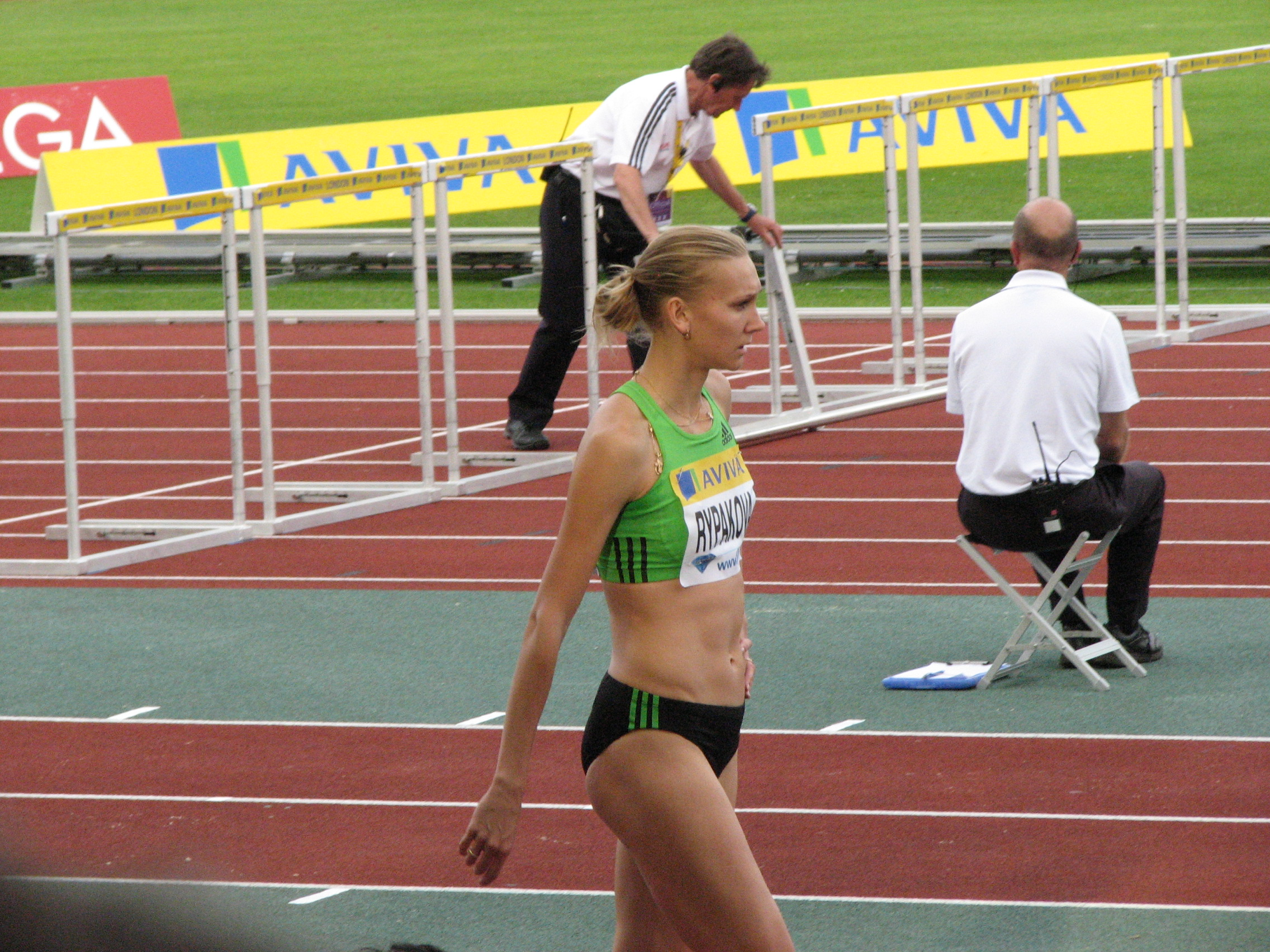 Olga Rypakova came second in the triple jump with 14.49m. Aviva London Grand Prix, hosting the Diamond League, Crystal Palace, Friday 5 August 2011.